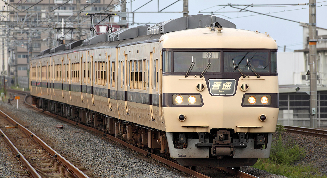 JNR 117 series EMU belongs to the JR West, at Katata Sta.